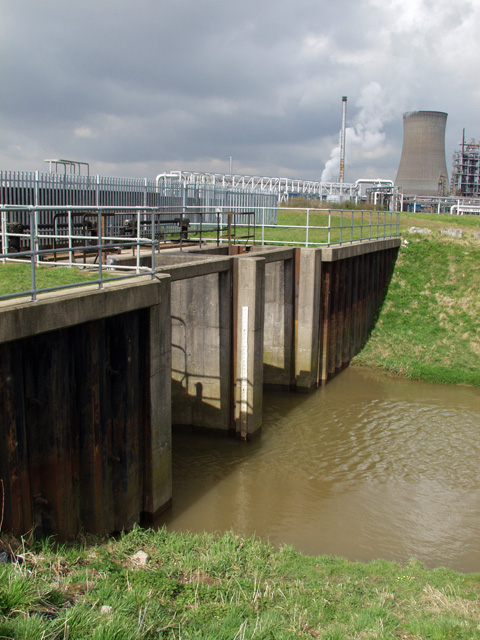 Pollard Clough, near Salt End, East Riding of Yorkshire, England.Sluice gates across Hedon Haven, looking across to the BP chemical works at Salt End